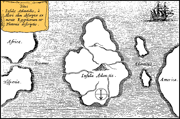 Athanasius Kircher's Map of Atlantis (c.1669). Note that north is at bottom.